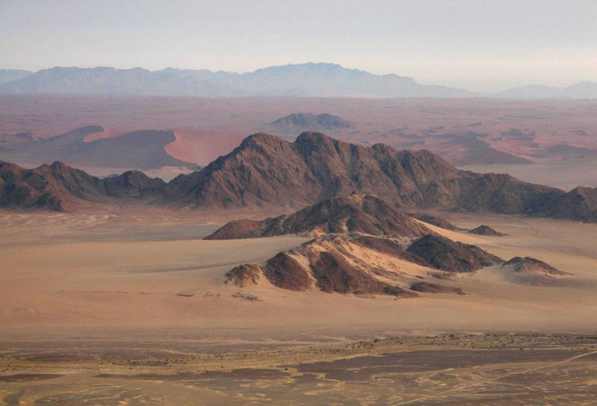 (Scott A. Christy, photographer is part of our group researching for a wiki page on Namibian Communal Wildlife Conservancies)